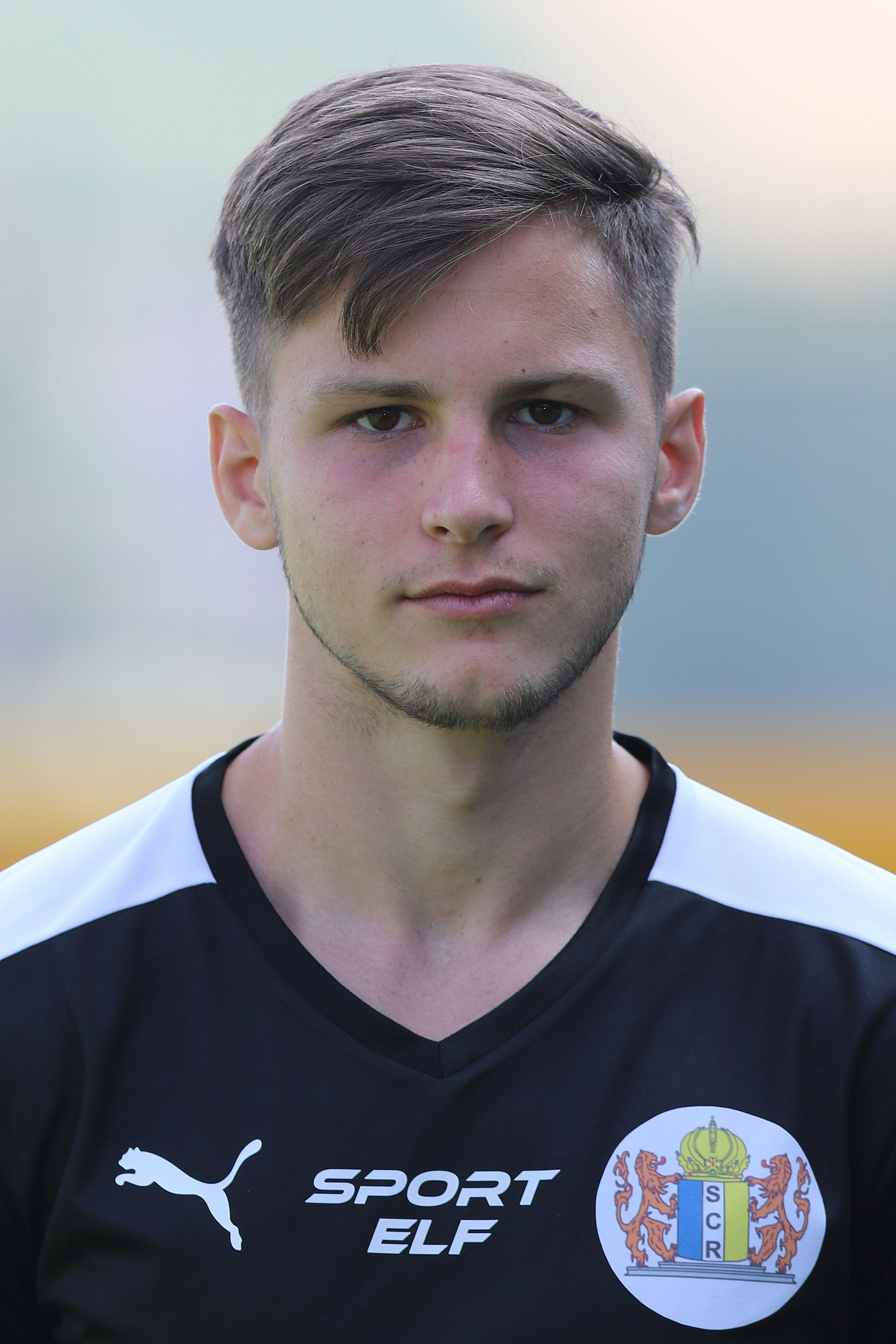 SC Ritzing squad for the 2016-17 season. – The photo shows Philipp Plank.